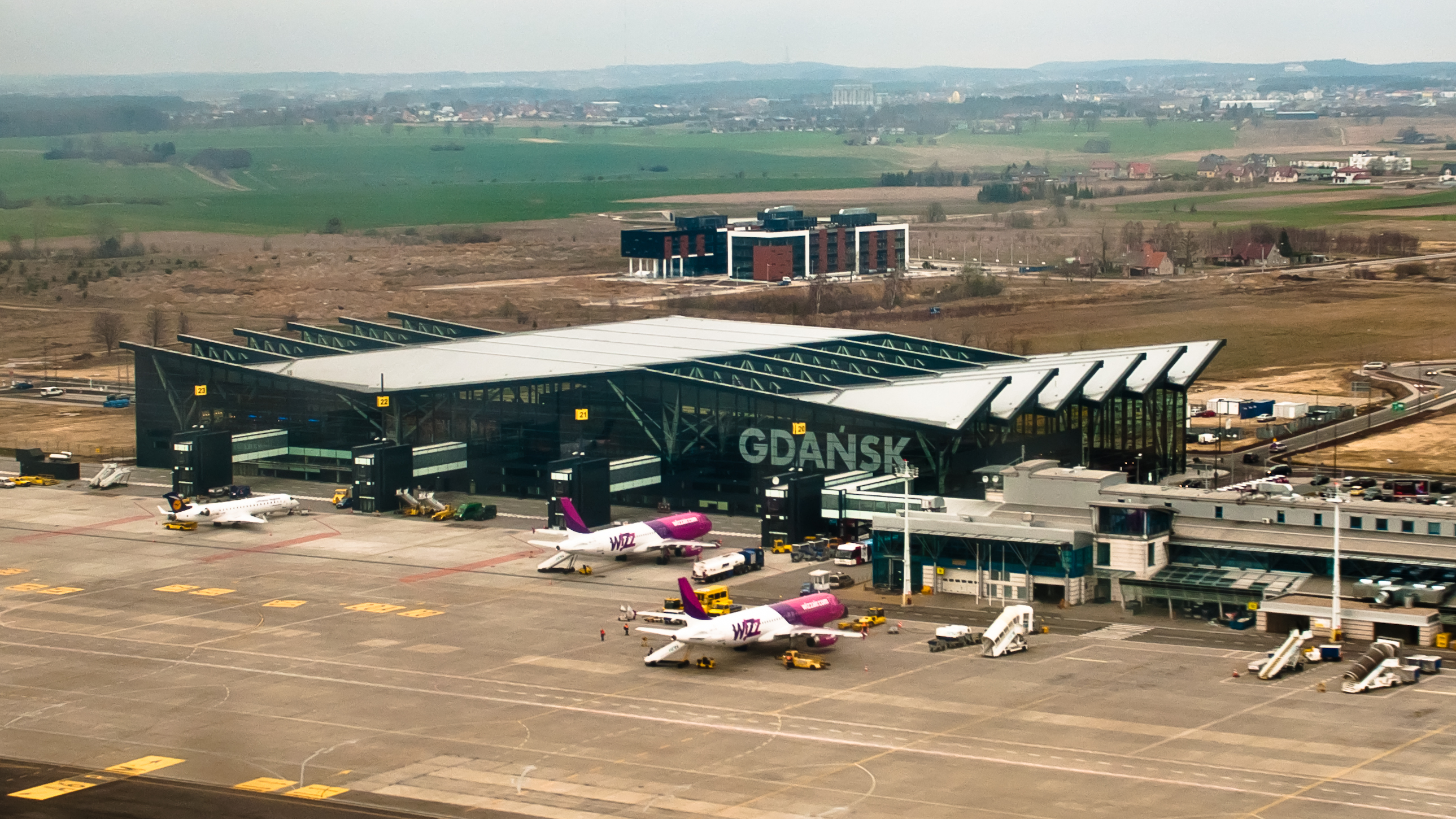 Gdansk Lech Walesa Airport, Terminal 2